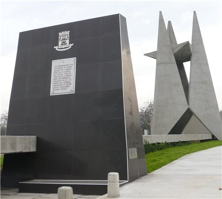 The moument of the Russian captain Burago in Plovdiv, Bulgaria.